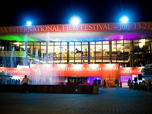 Odessa International Film Festival 2012. Festival palace